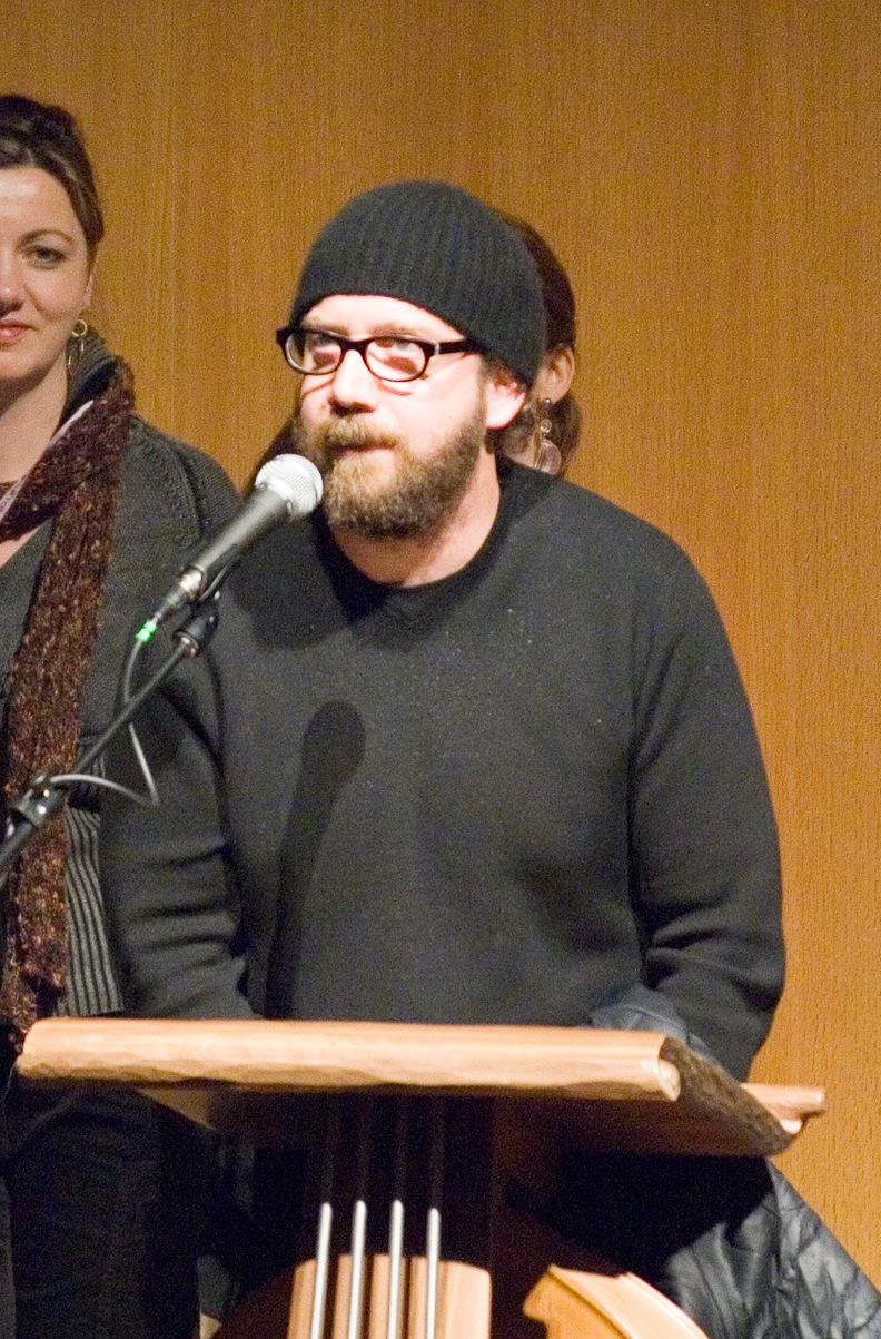 Paul Giamatti fields a question after the World Premiere of "The Illusionist" at Sundance. At the far left is director Neil Burger, and next to him is Jessica Biel.